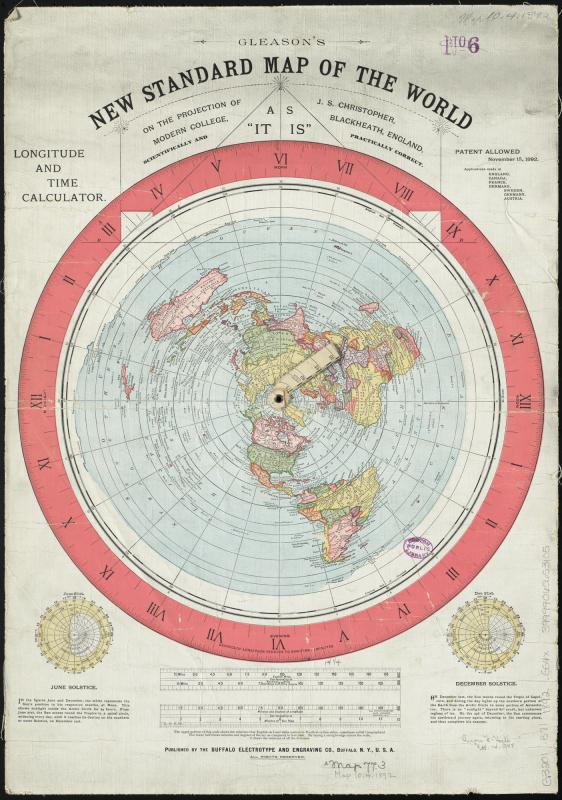 Zoom into at Publisher: Buffalo Electrotype and Engraving Co., Buffalo Date: 1892 Location: World Dimensions: 30 cm. in diameter, on sheet 55 x 39 cm. Scale: [ca. 1:2,000,000] Call Number: G3201.B71 1892 .G54x